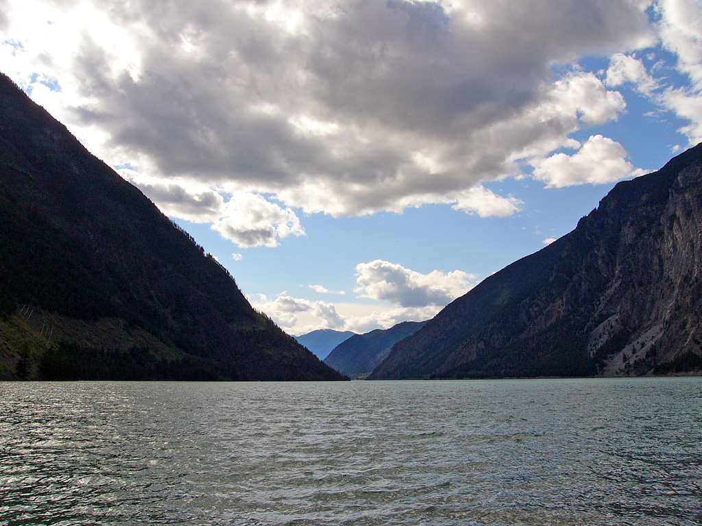 Seton Lake, B.C. Near Lillooet.